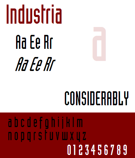 An example of the Industria typeface, solid weight.